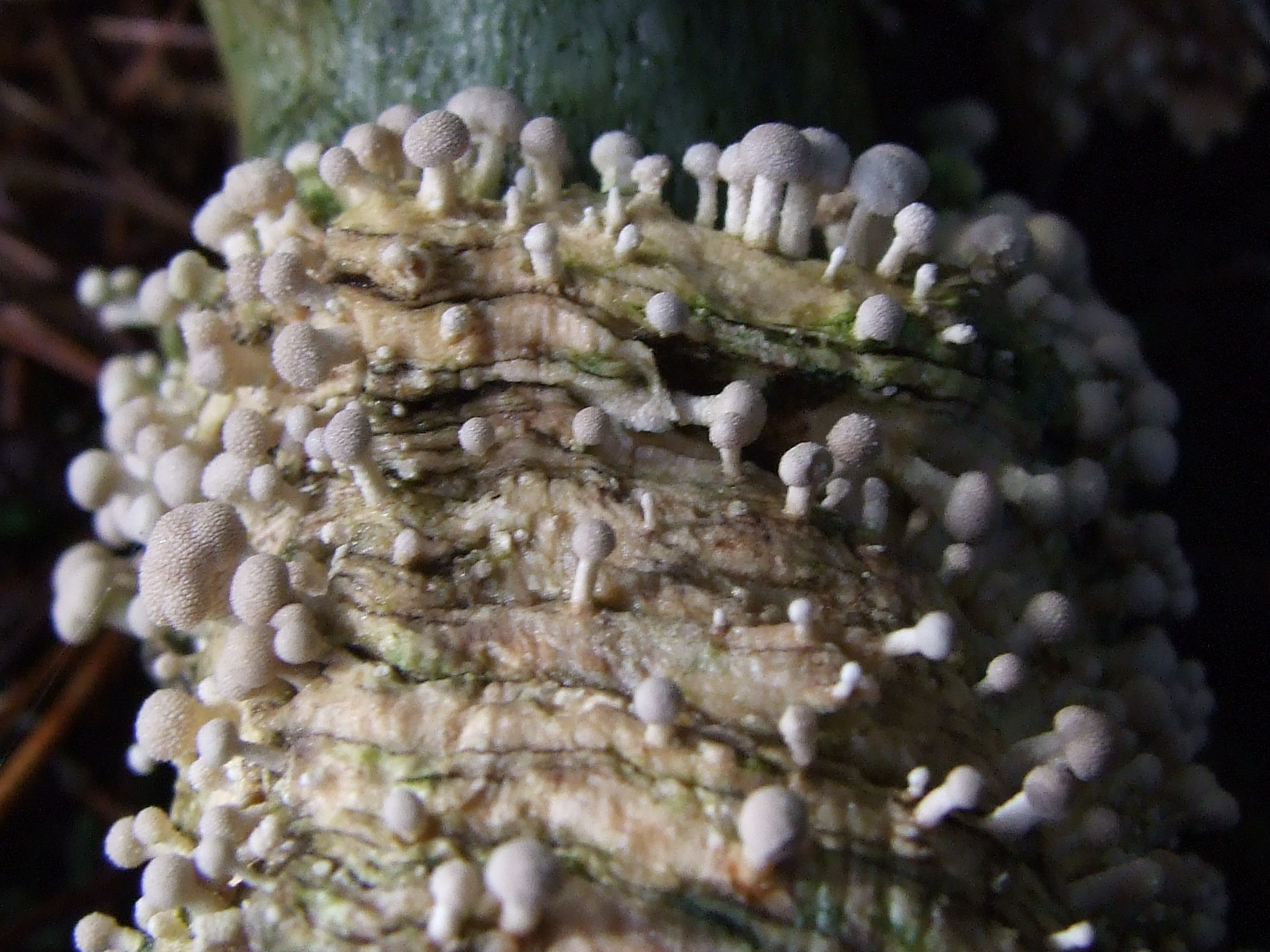 Onygena equina growing on sheep's horn. In a conifer plantation near Portavadie, Argyll, UK